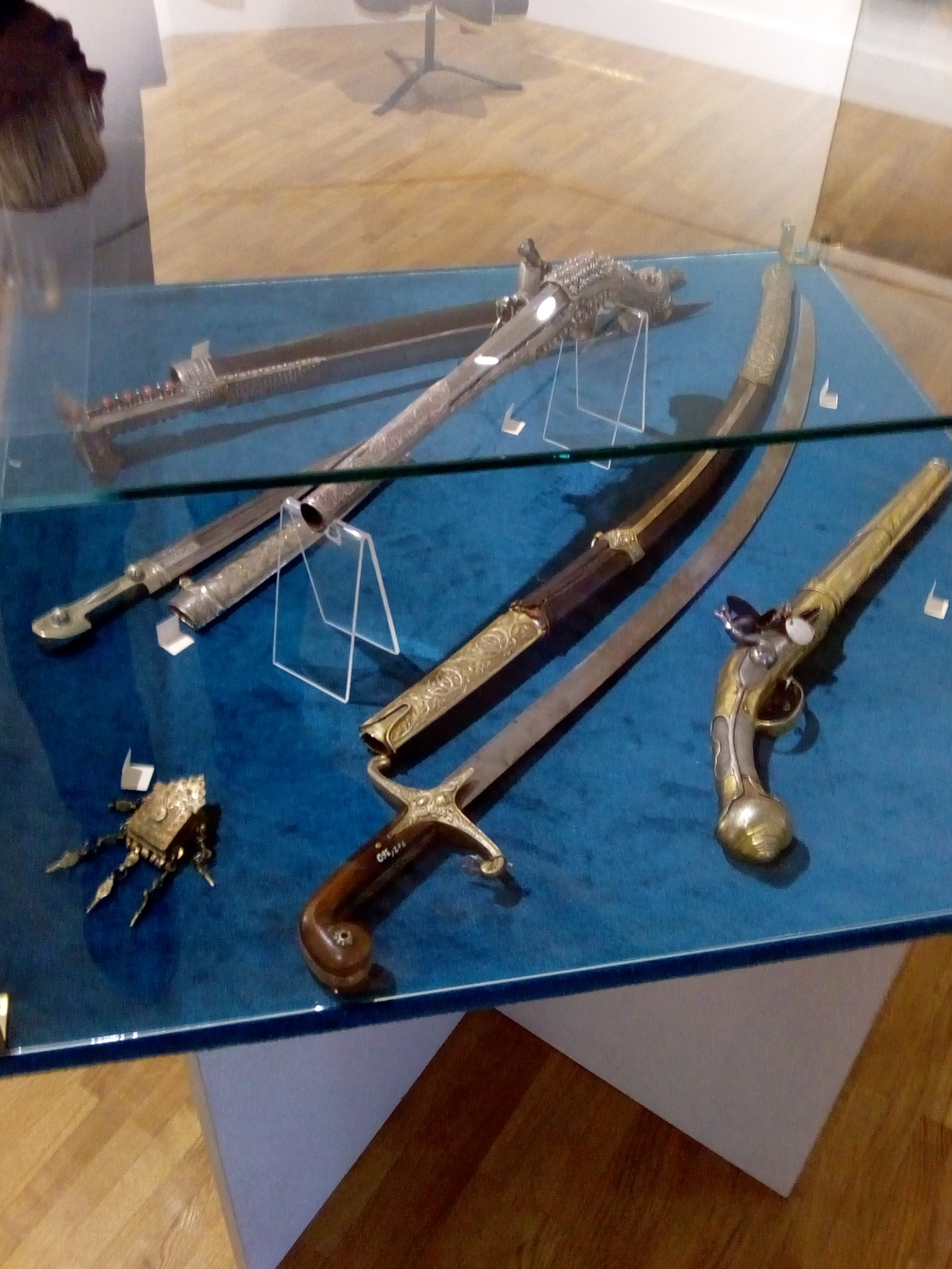 Weapons used by Serbian rebels under Karadjordje during First Serbina uprising